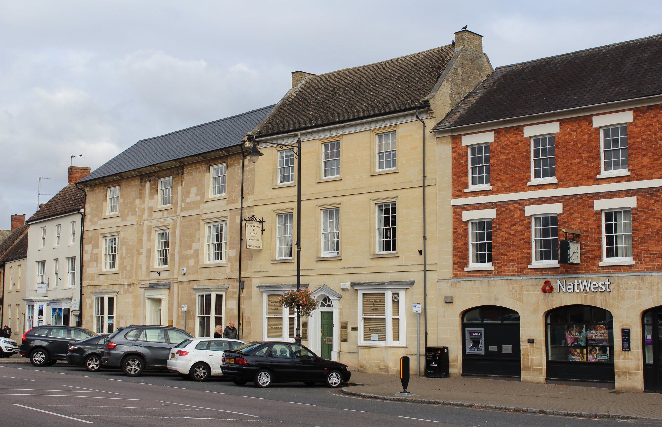 High Street, Olney, Buckinghamshire, England. October 2016.